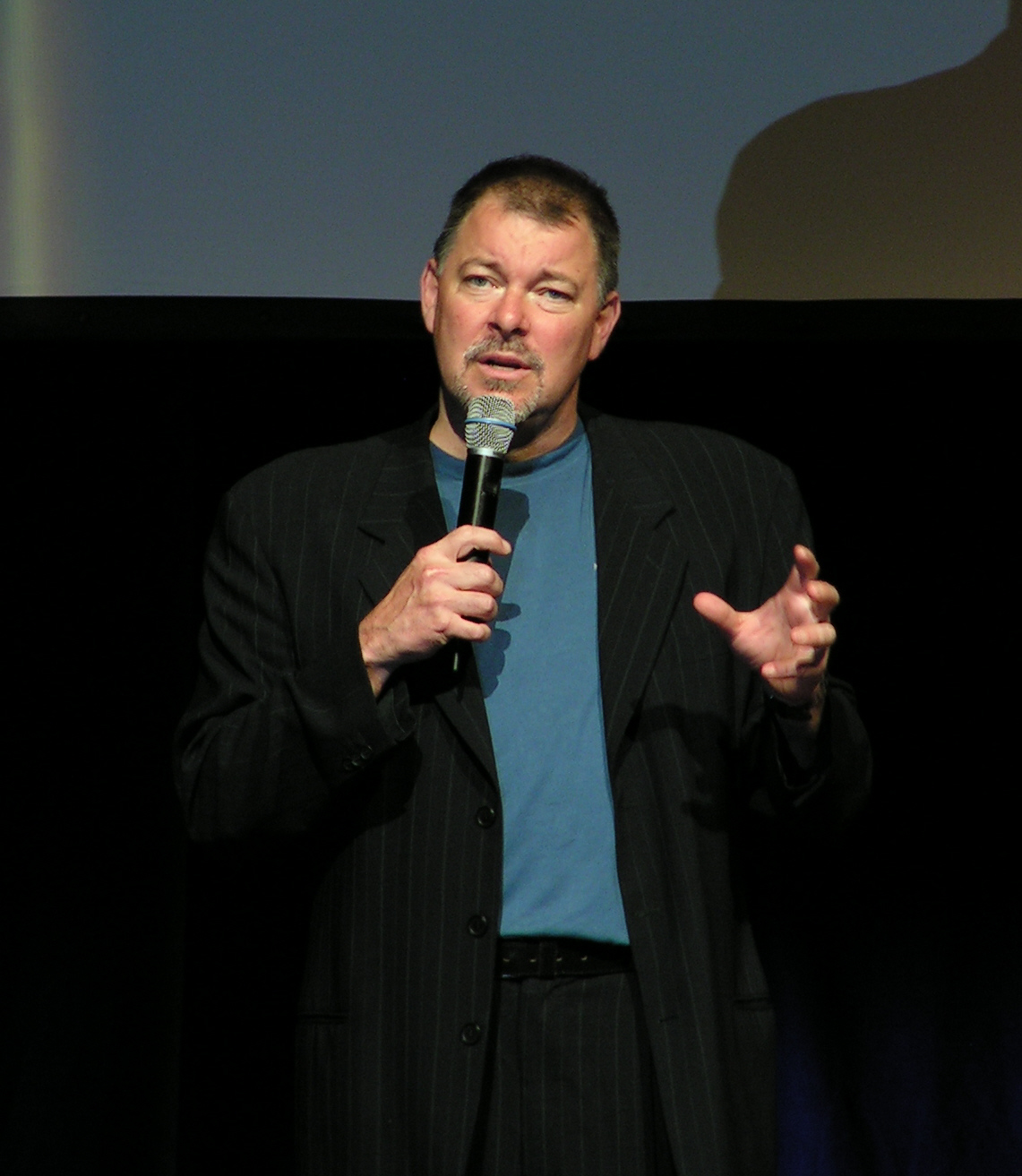 Jonathan Frakes on Galileo 7.9 Convention (2005 in Neuss, Germany)